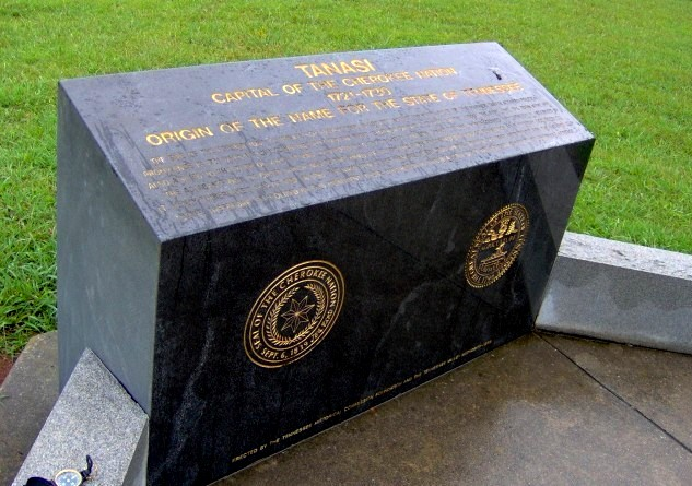 The Tanasi Monument on the banks of the Little Tennessee River (now Tellico Lake). The monument marks the site of the now-submerged Cherokee town of Tanasi, which was the root of the state's name. Tanasi was the de facto capital of the Cherokee Nation from 1721-1730. British adventurer Sir Alexander Cuming visited the town in 1730. The inscription on the monument reads: TANASI CAPITAL OF THE CHEROKEE NATION 1721-1730 ORIGIN OF THE NAME FOR THE STATE OF TENNESSEE The site of the former town of Tanasi, now underwater, is located about 300 yards west of this marker. Tanasi attained political prominence in 1721 when its civil chief was elected the first "Emperor of the Cherokee Nation". About the same time, the town name was also applied to the river on which it was located. During the mid-18th century, Tanasi became overshadowed and eventually absorbed by the adjacent town of Chota, which was to the immediate North. The first recorded spelling of Tennessee as it is today occurred on Lt. Henry Timberlake's map of 1762. In 1796, the name Tennessee was selected from among several as most appropriate for the Nation's 16th state. Therefore, symbolized by this monument , those who reside in this beautiful state are forever linked to its Cherokee heritage.